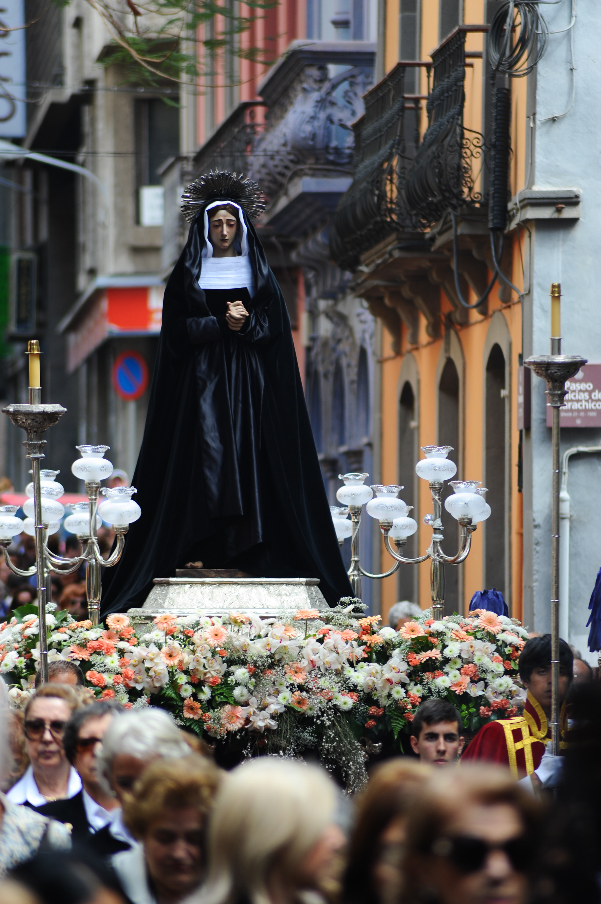 A religious procession in the streets of Santa Cruz de Tenerife (details). Tenerife, Canary Islands, Spain, Southwestern Europe.